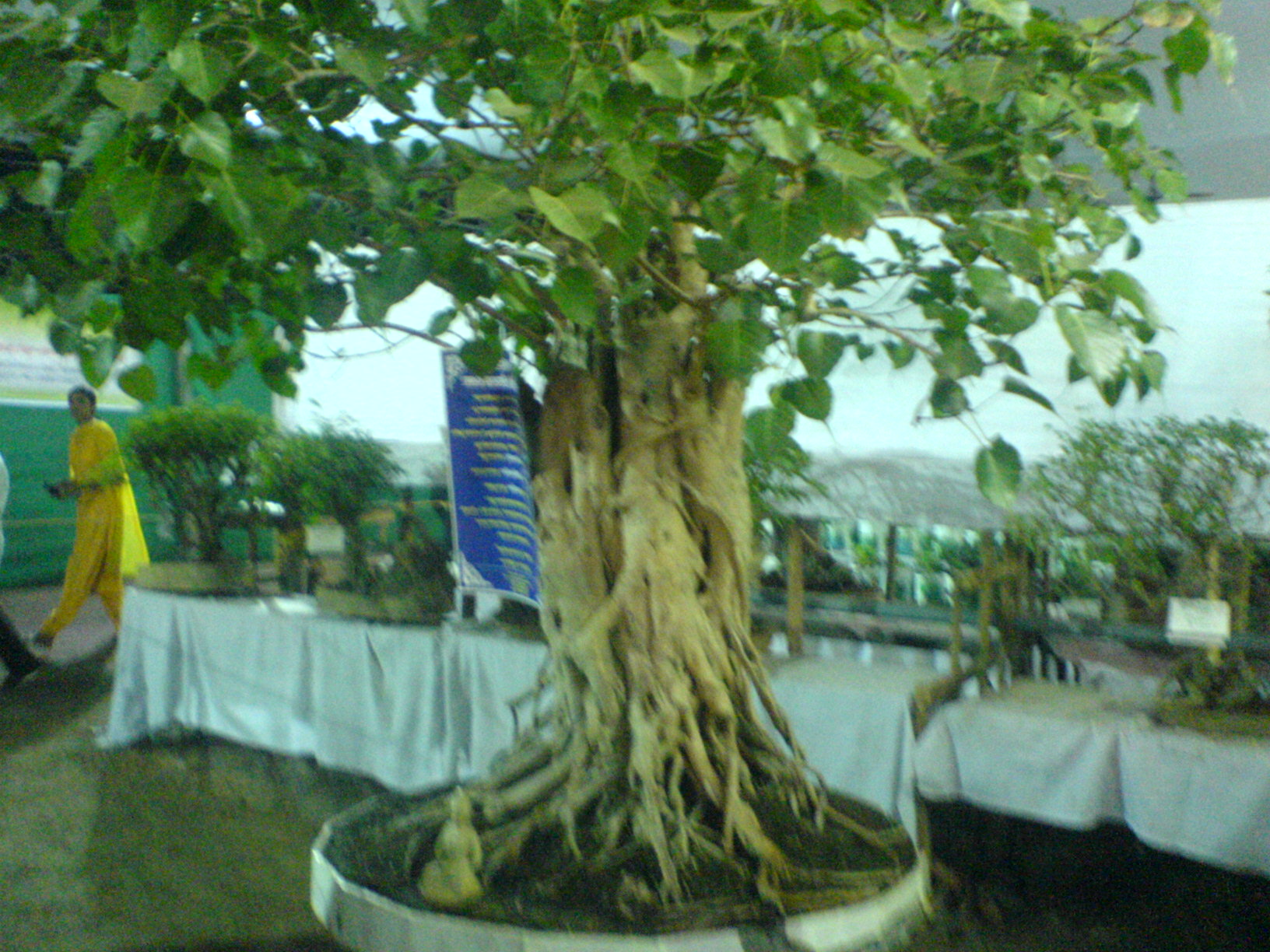 150 year old potted tree at the Cochin Flower Show 2008